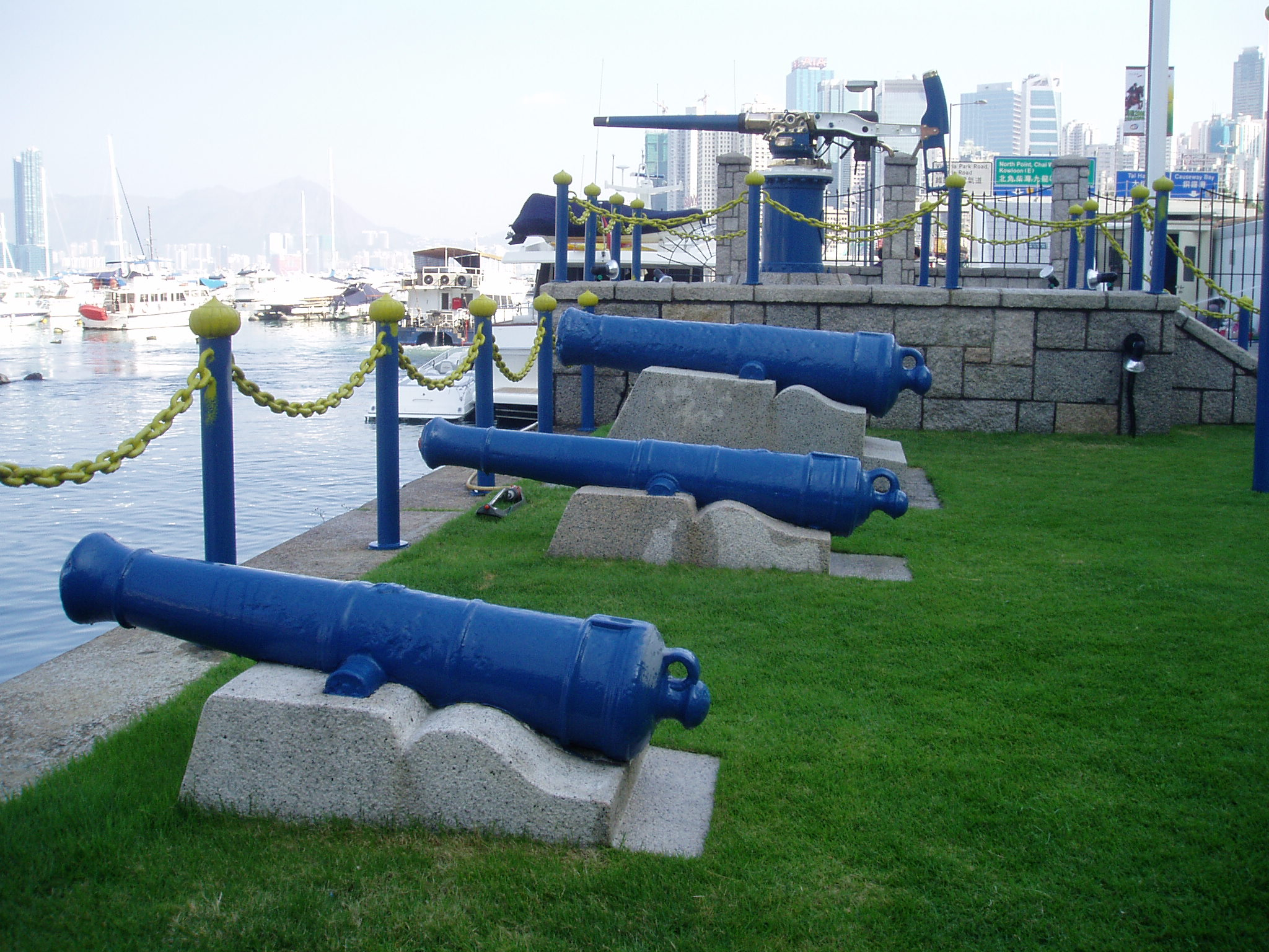 Noonday Gun at Causeway Bay, Hong Kong (on platform. furthest from camera). The gun is a QF 3 pounder Hotchkiss.